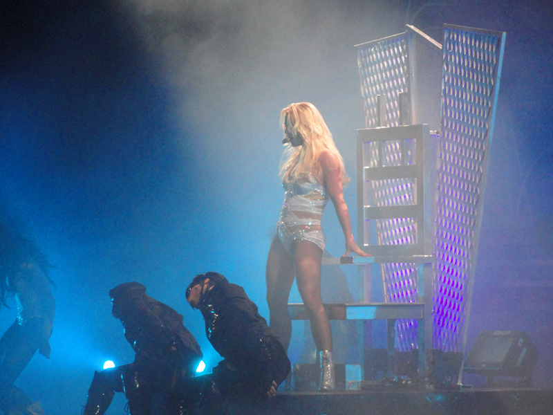 SPEARS